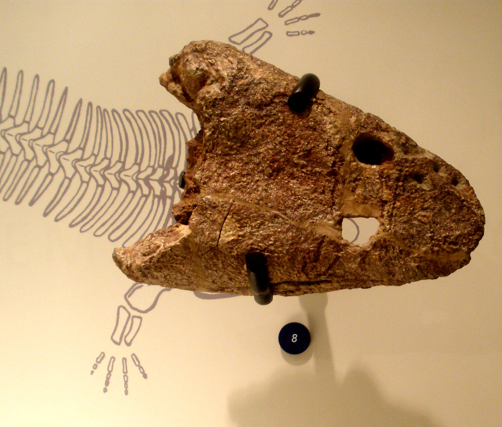 fossil of Trimerorhachis, an extinct amphibian